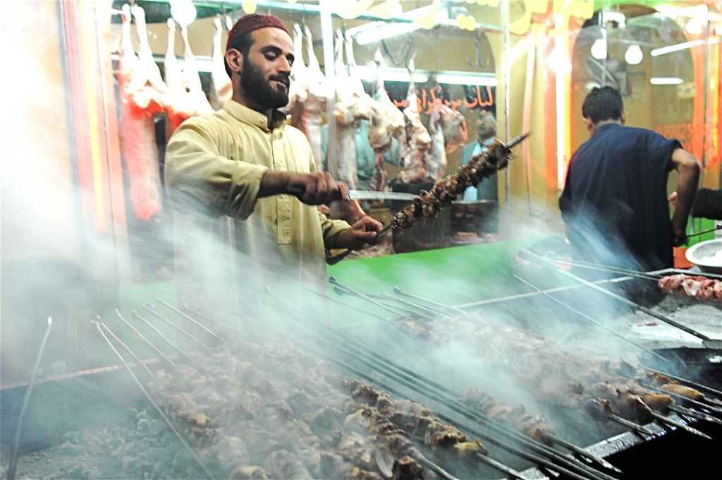 Chopan Kebab – a luxury food, lamb kebab which can take up to one hour to prepare. Photo by Iain Cochrane of Scotland, the United Kingdom.